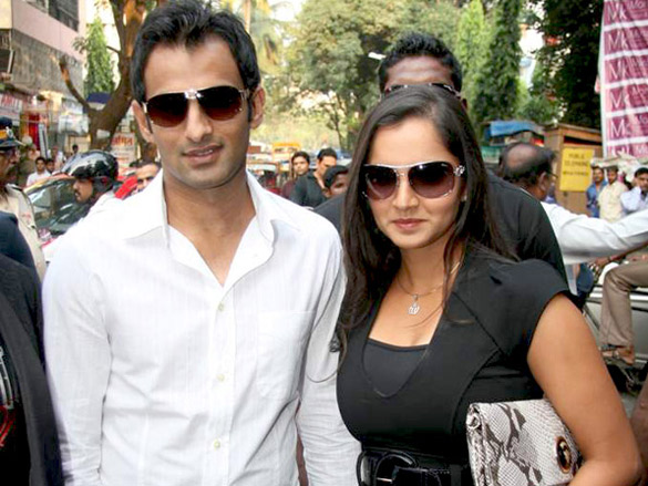 Sania shoaib